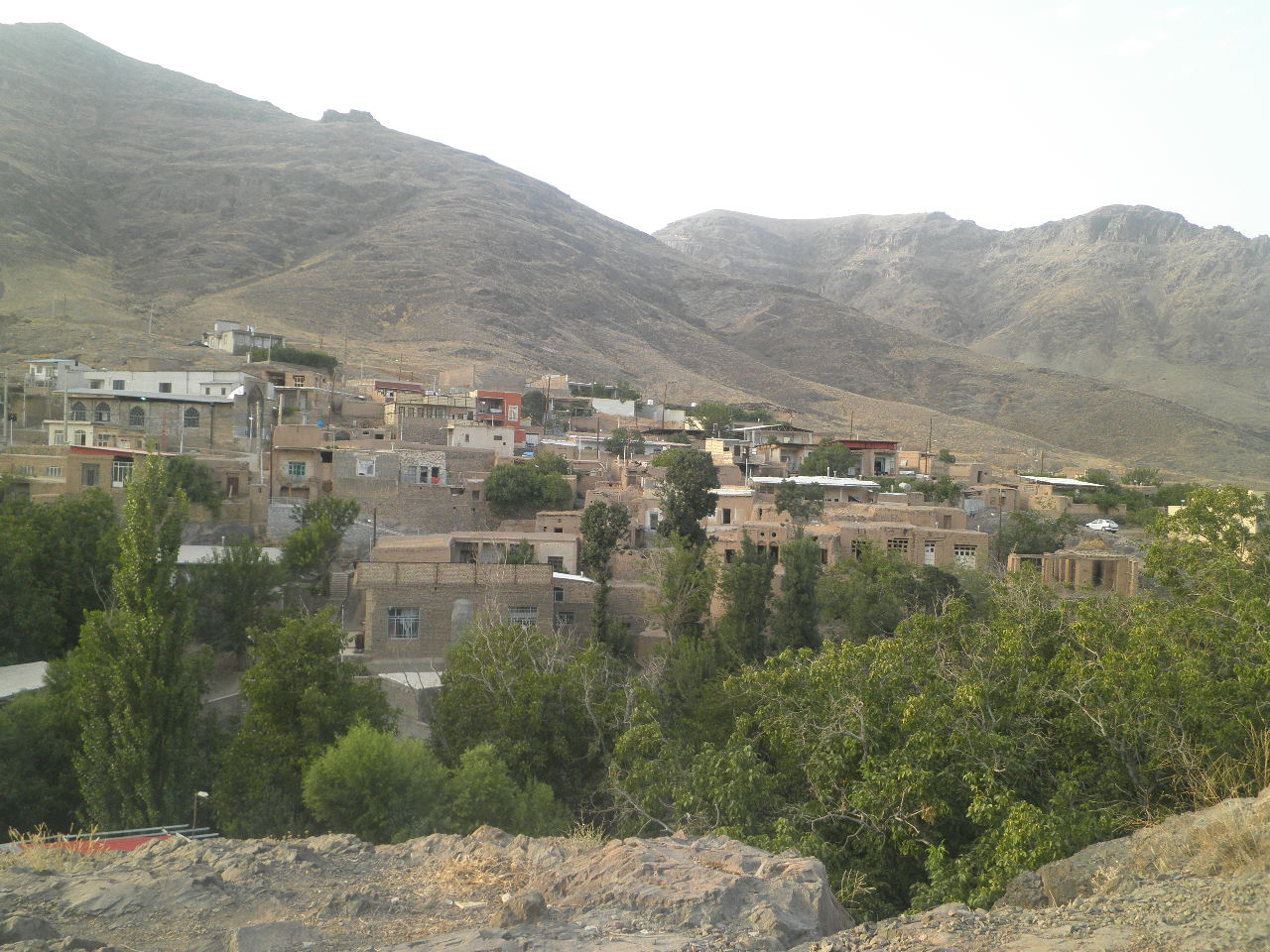 روستای قه